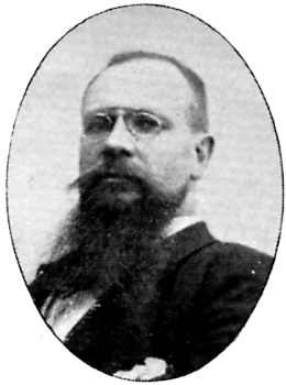 Image scanned from the book "Svenskt Porträttgalleri XX - Arkitekter, Bildhuggare, Målare m.fl. " ("Swedish Portrait Gallery XX - Architects, Sculptors, Painters, ") published 1901